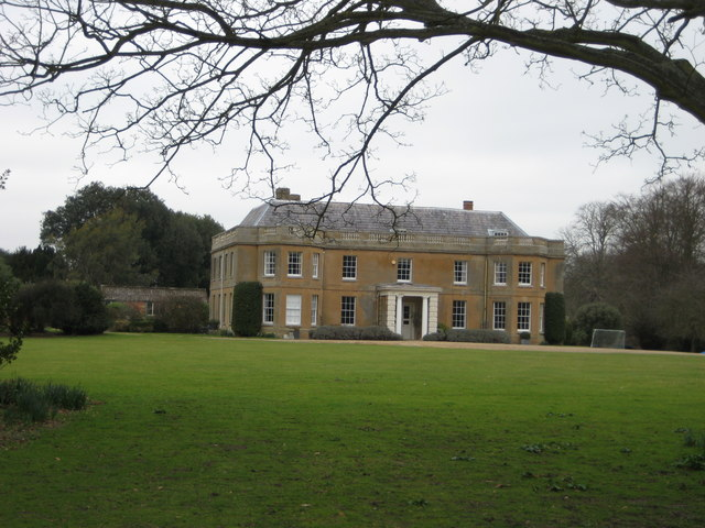 Polstead Hall View of Polstead Hall from the Church yard.